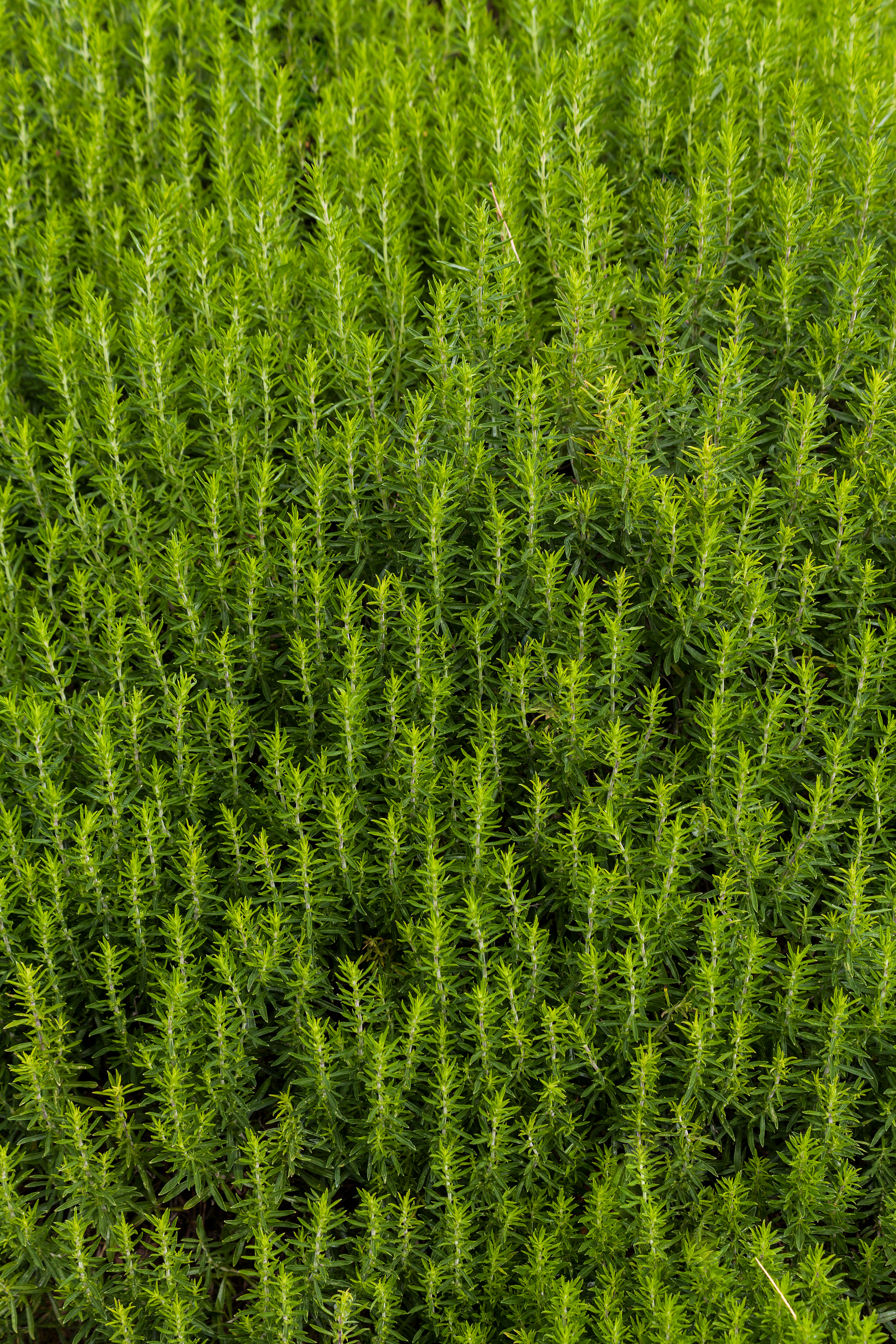 Satureja subspicata at the Royal Botanic Garden Edinburgh.